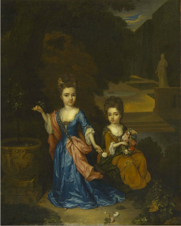 Two children of Francesco Lopez Suasso